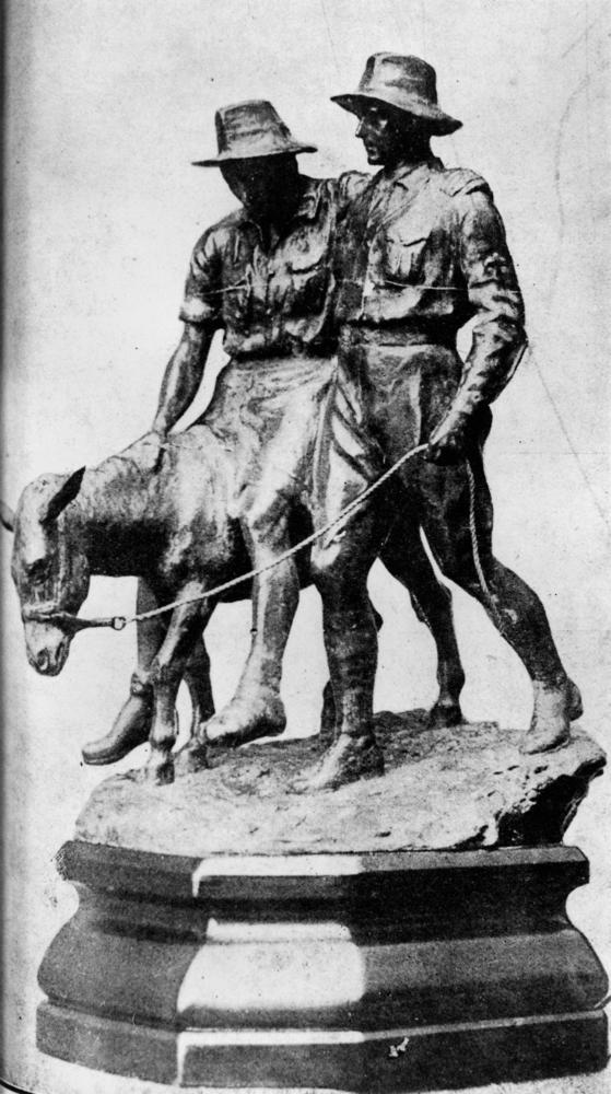 Statue of Simpson and his donkey, 1919